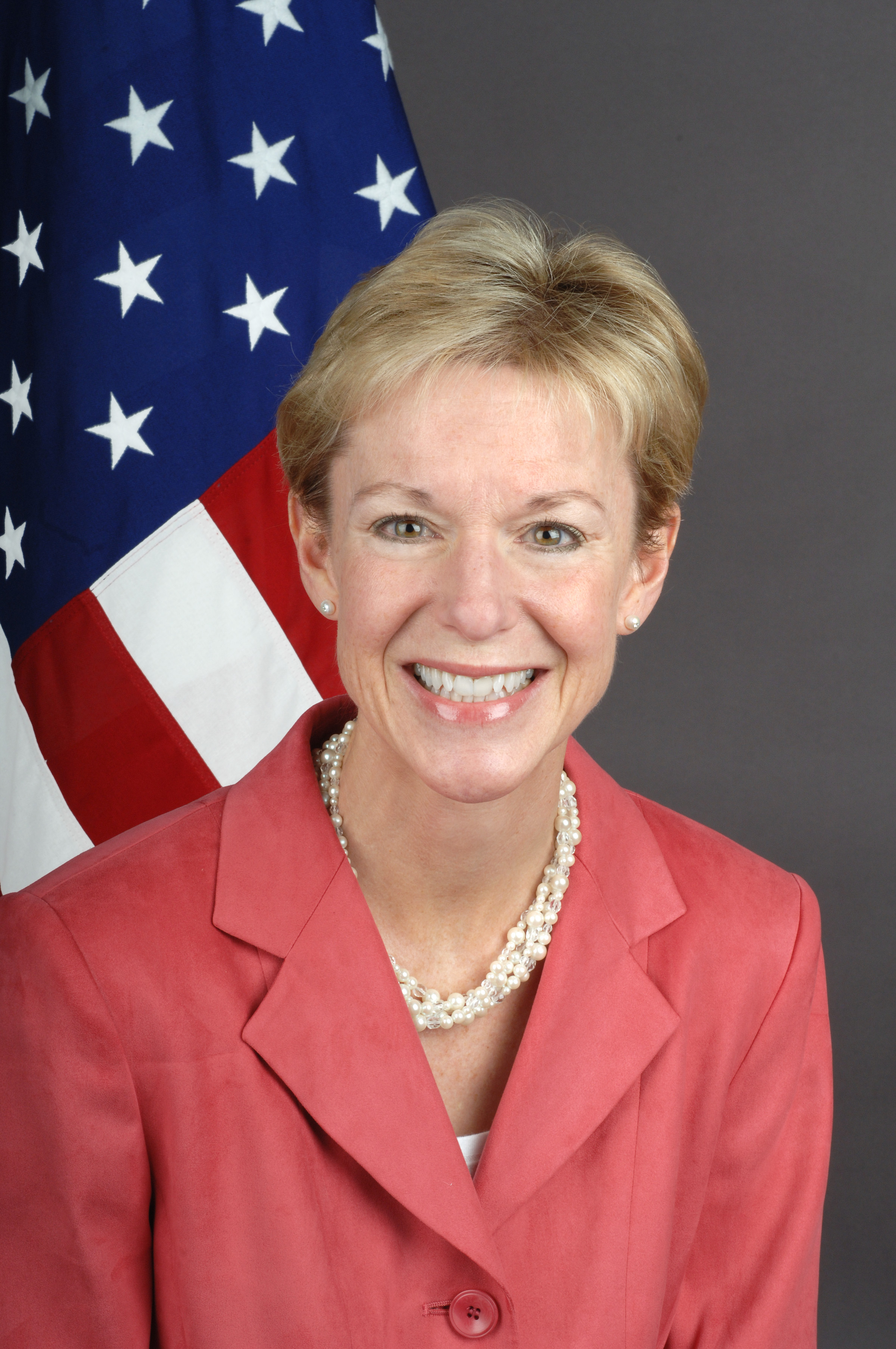 Kristie A. Kenney, U.S. Ambassador to the Philippines. Source: United States Embassy in Manila: Biography of Kristie A. Kenney.